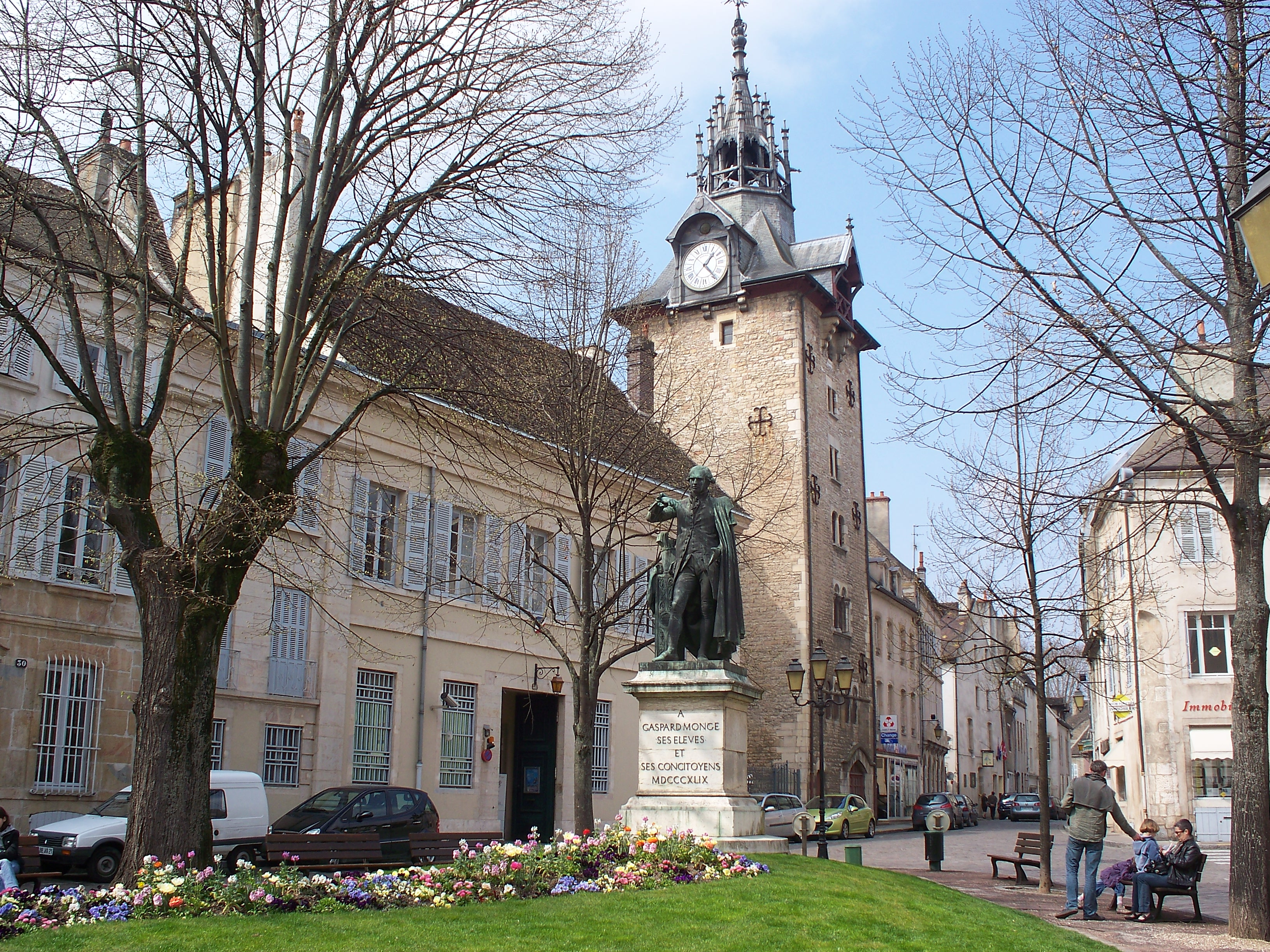 Statue of Caspar Monge in Beaune, France